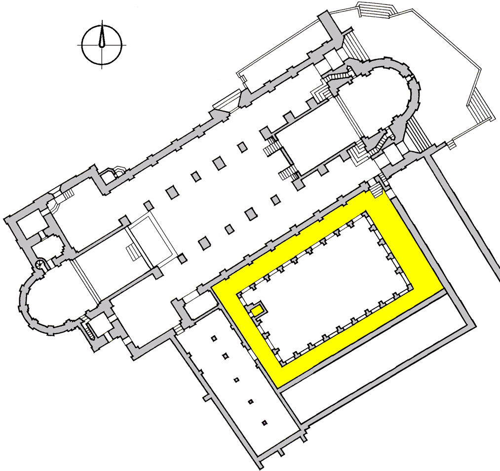 cathedral of Bamberg, Germany